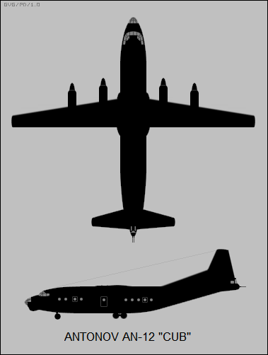 2-view silhouette of the Antonov An-12